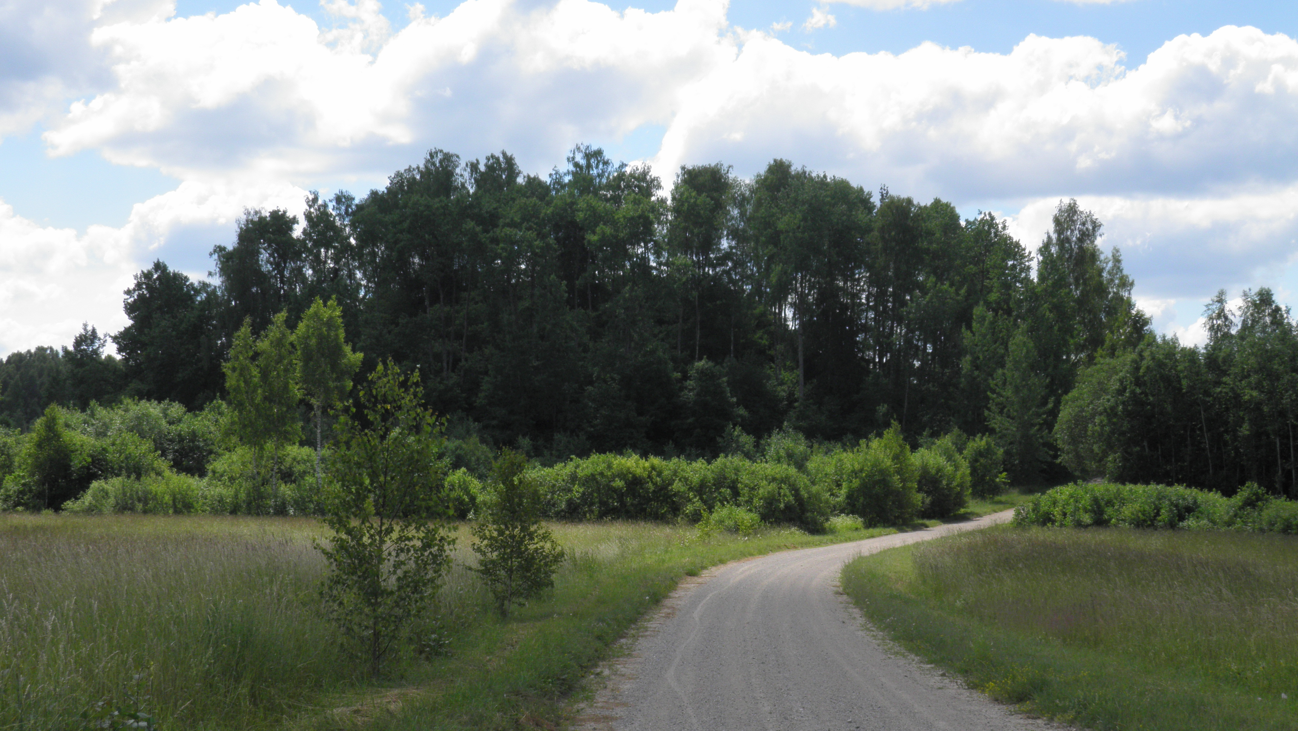 mountain